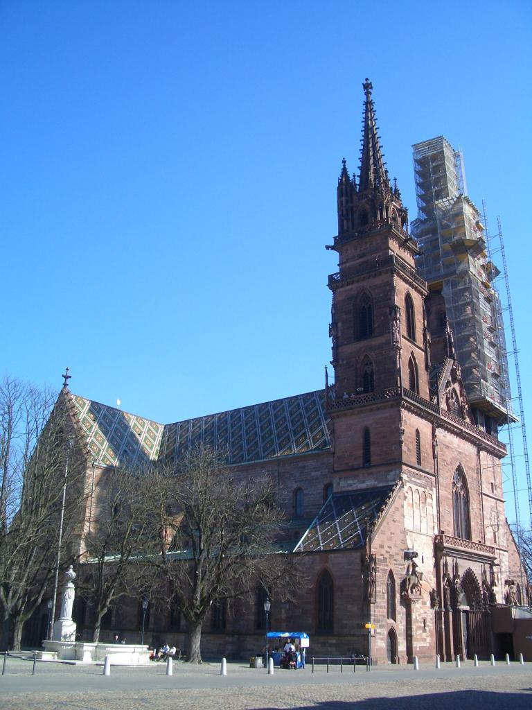 Cathedral Square, Basel, Switzerland